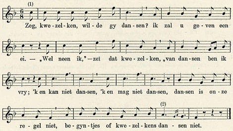 Musical notation of the folk song 'Zeg, kwezeltje wilde gij dansen'. In: Florimond van Duyse, "Het oude Nederlandsche lied" (part 2, 1905). Page 1194 (song number 328).